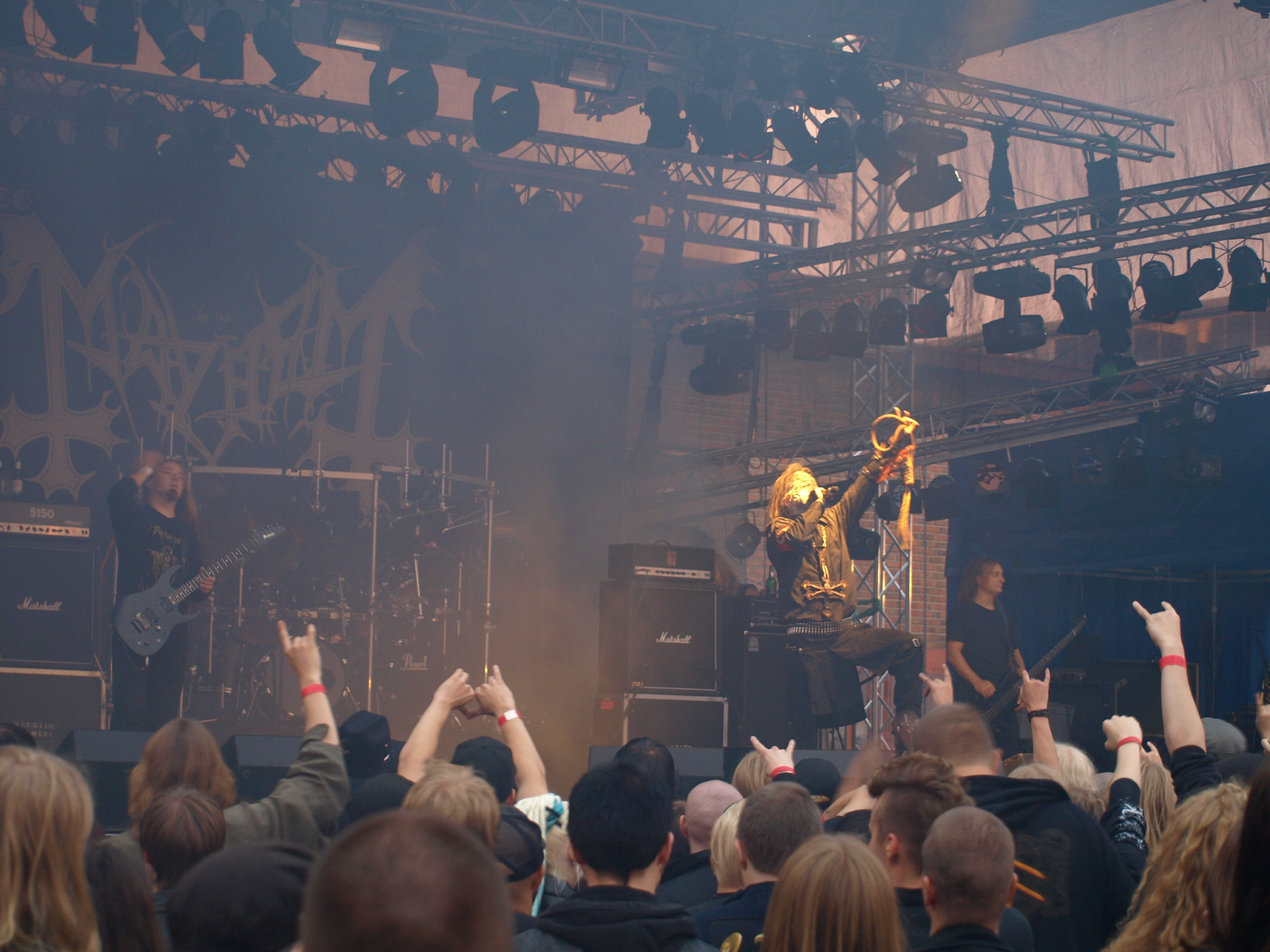 Norwegian black metal band Mayhem live at Jalometalli 2008 in Oulu.